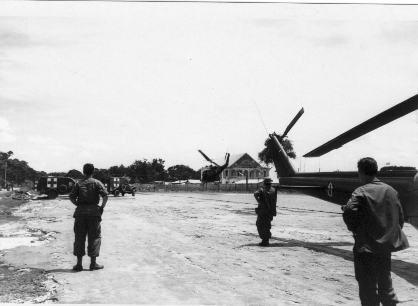 U.S. Army heliport, Tay Ninh, 1971